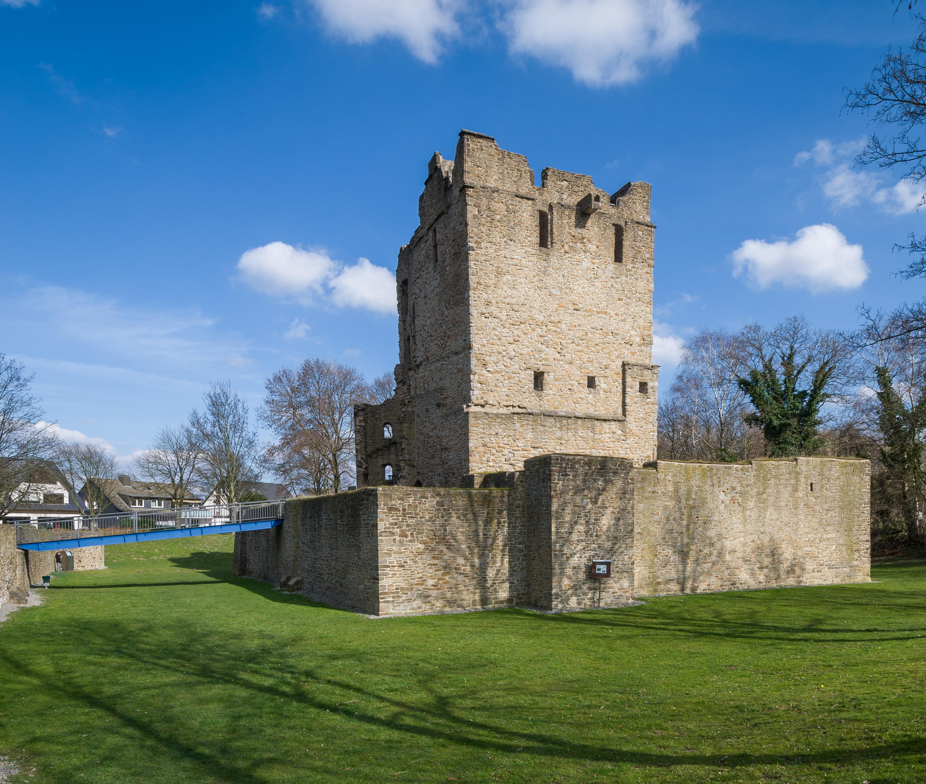 Donjon of Altendorf Castle, south-western side